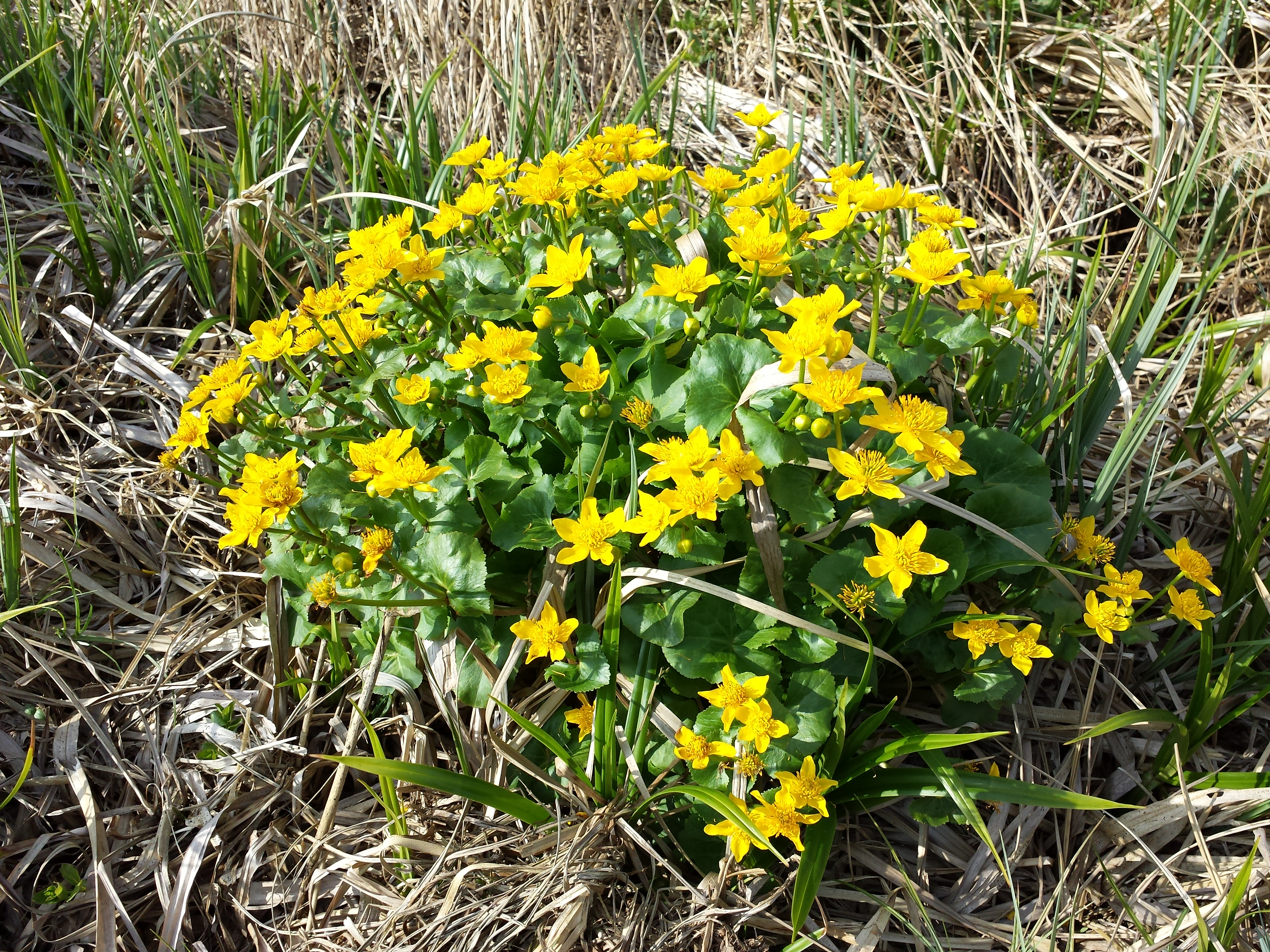 Habitus Taxon: Caltha palustris (sensu Fischer et al. EfÖLS 2008 ISBN 978-3-85474-187-9) Location: Rohrwald, district Korneuburg, Lower Austria - ca. 250 m a.s.l. Habitat: wet meadows